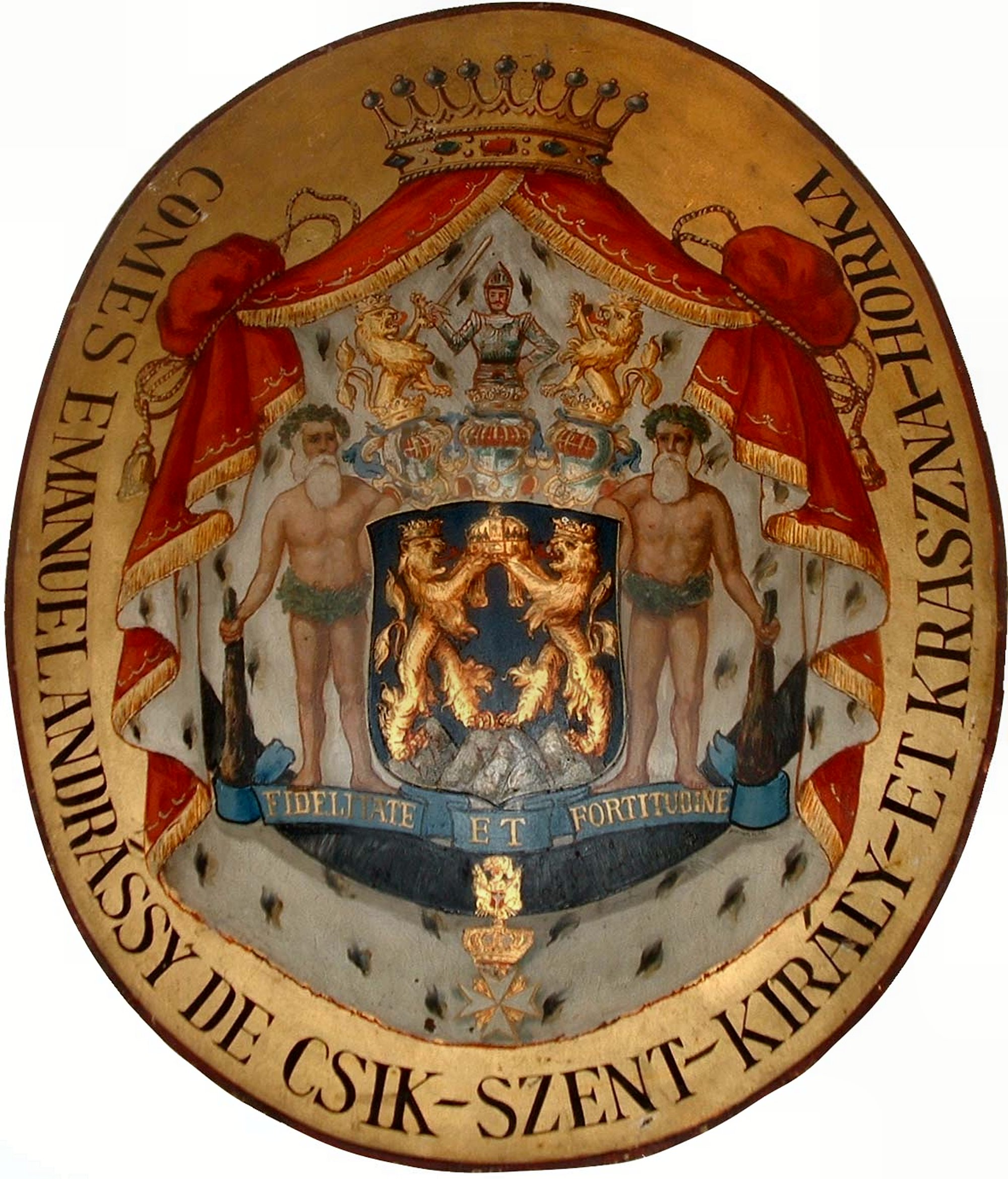 Coat of arms of Manó Andrássy (1892 - 1953). Order of Malta oratory, Matthias Church, Budapest. Insription on the plaque: "COMES EMANUEL ANDRÁSSY DE CSIK-SZENT-KIRÁLY-ET KRASZNA-HORKA".